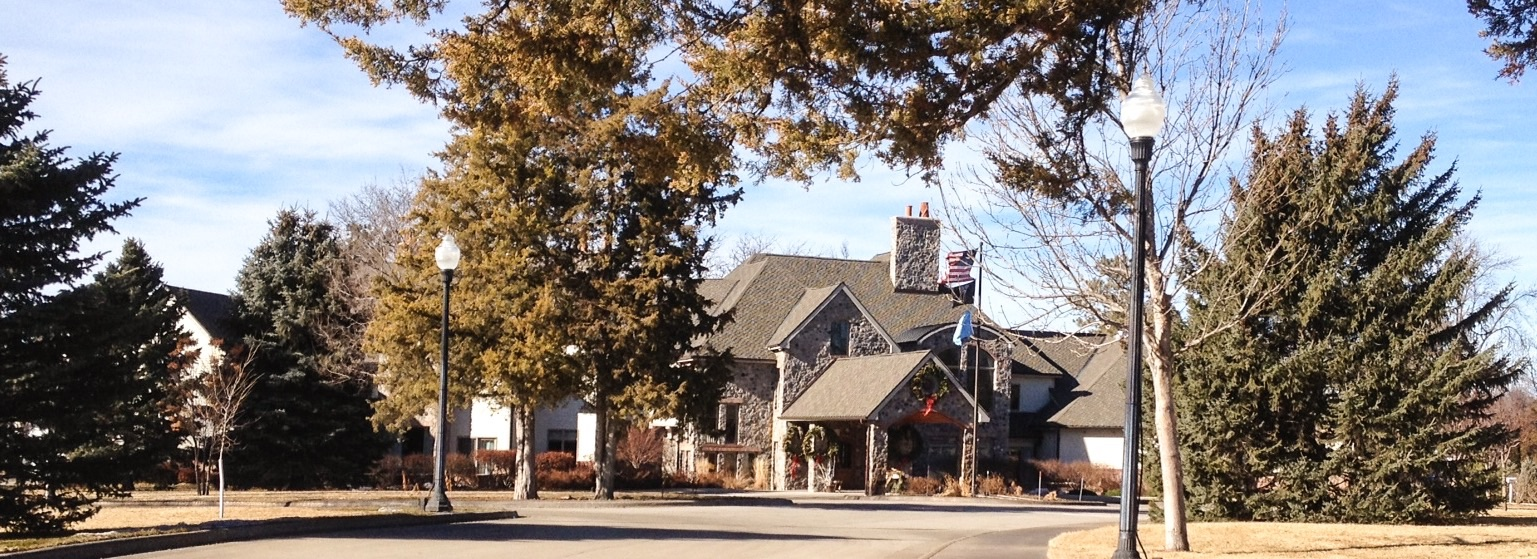 Photo of governors mansion